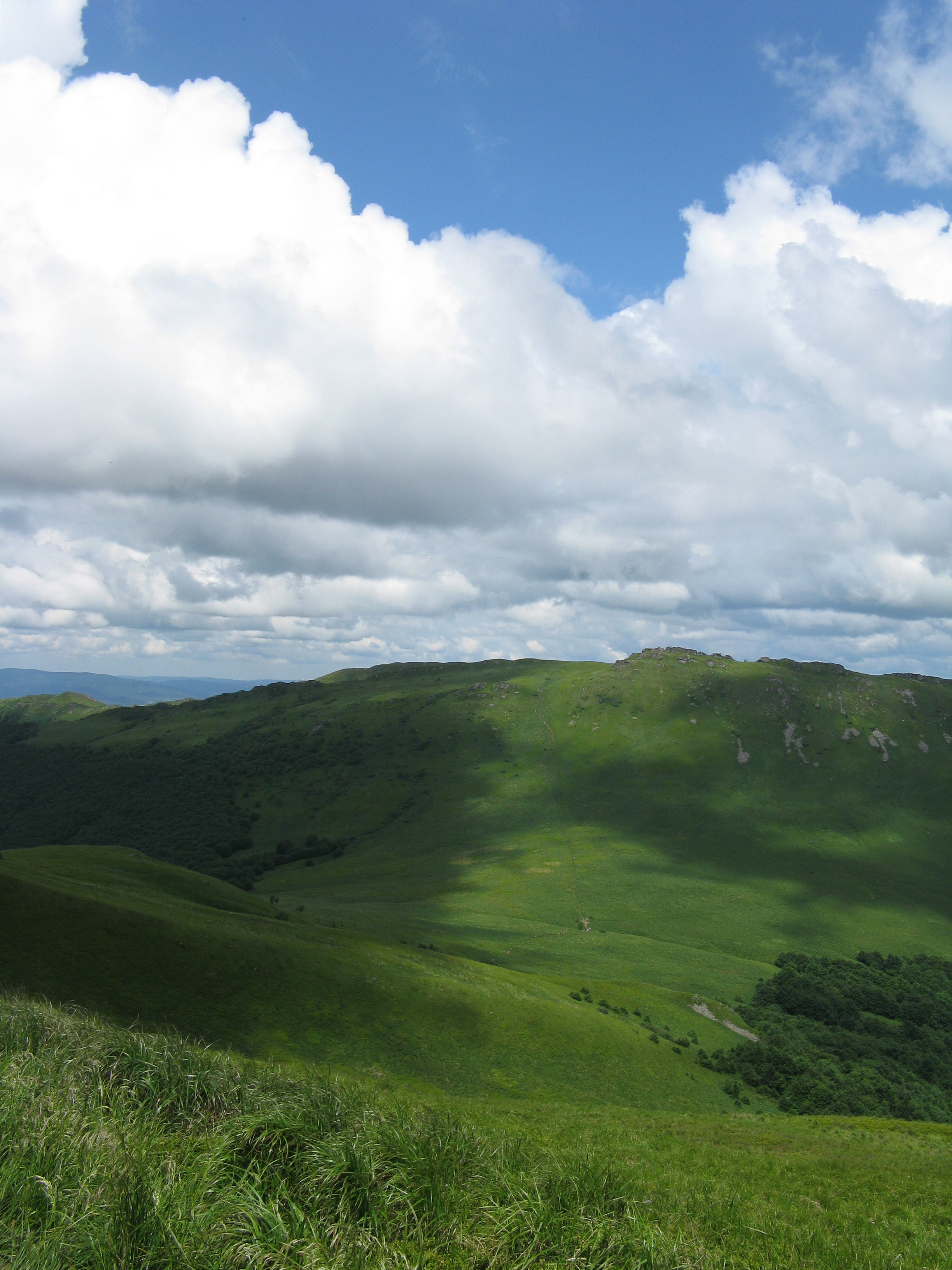 Goprowska Pass seen from yellow trail on Tarnica